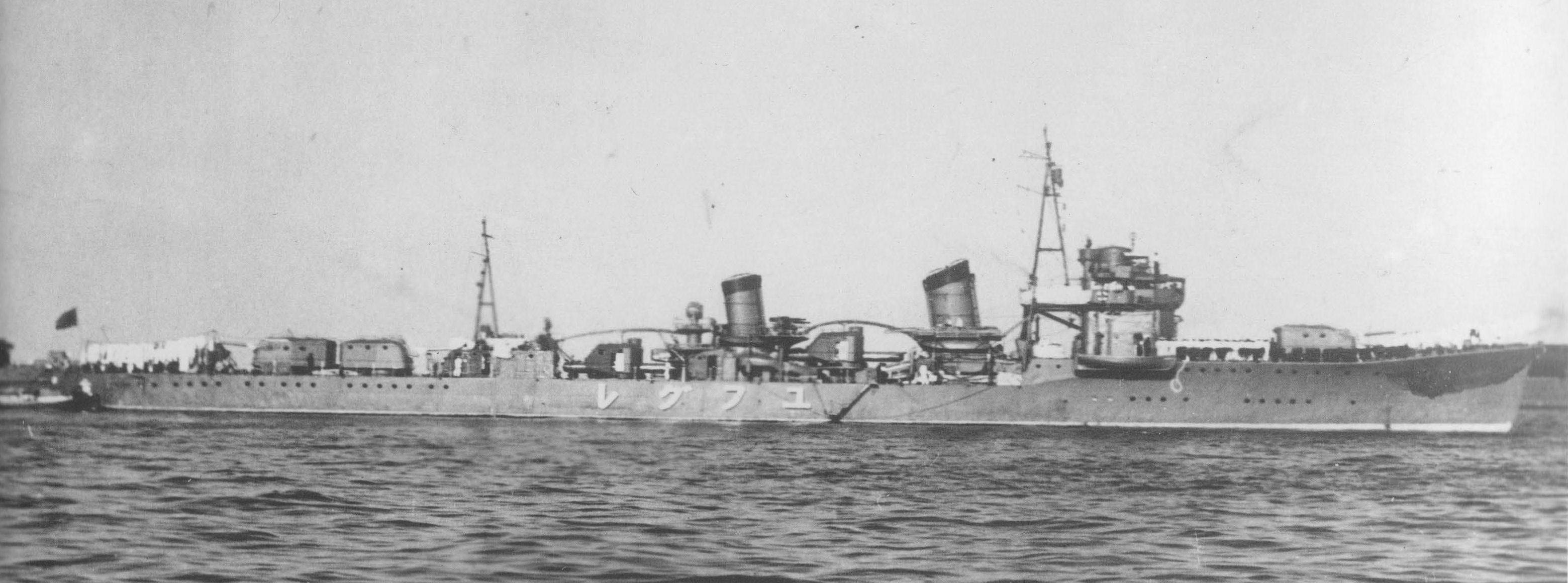 Imperial Japanese Navy destroyer Yugure, the second Japanese warship to bear that name, underway in October 1935.